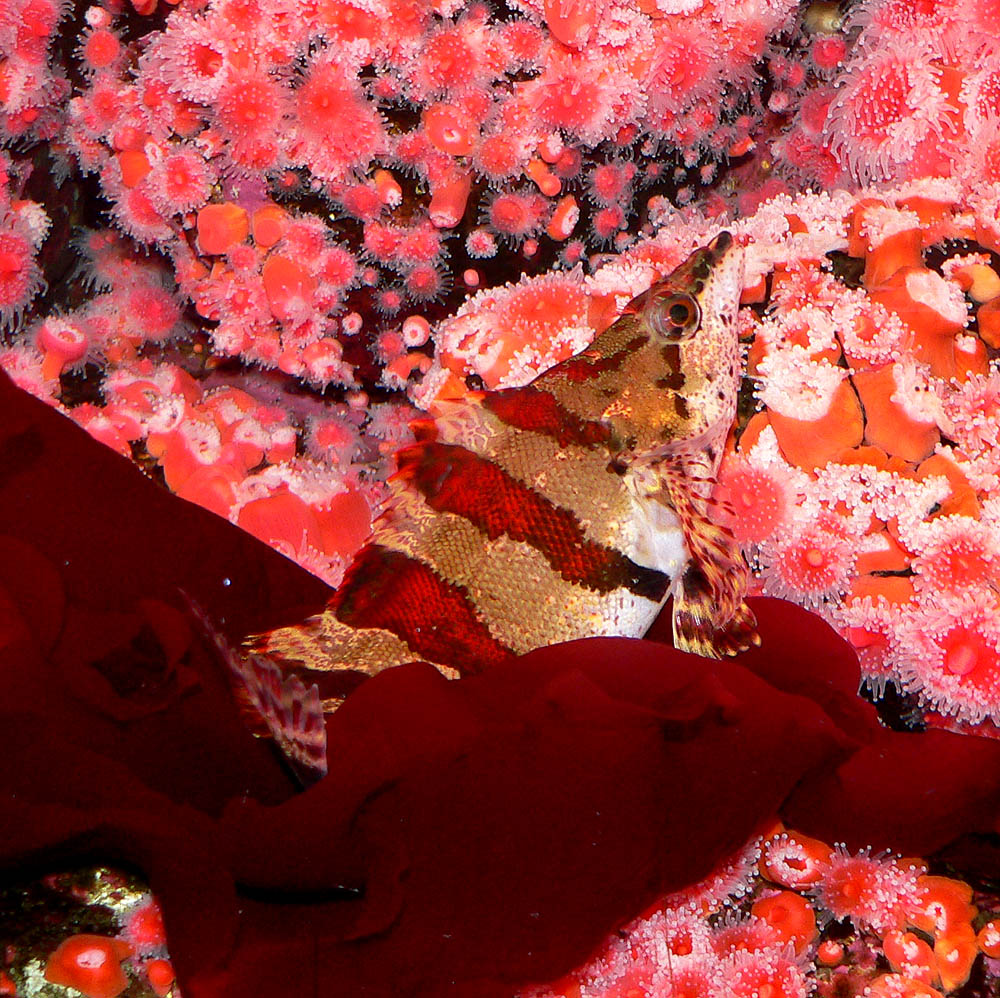 Photo of Oxylebius pictus (painted greenling) at the Vancouver Aquarium